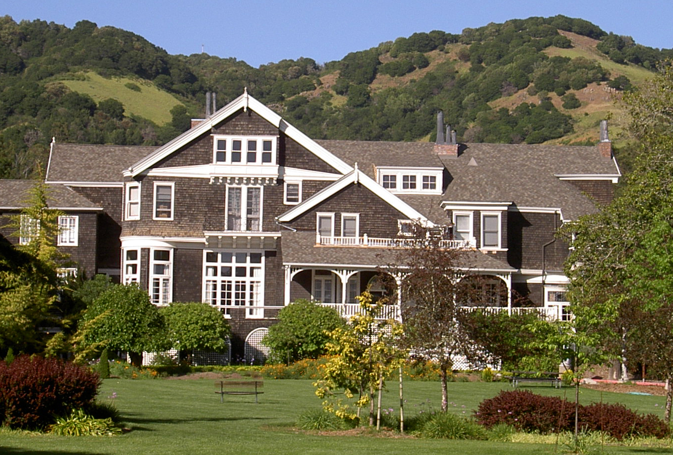 Meadowlands Hall at Dominican University in San Rafael, California, USA, viewed from the southwest. Built in 1888, it was the De Youngs' summer home. The Dominican sisters bought it in 1918. It includes student residences, an assembly hall, and the Department of Occupational Therapy.